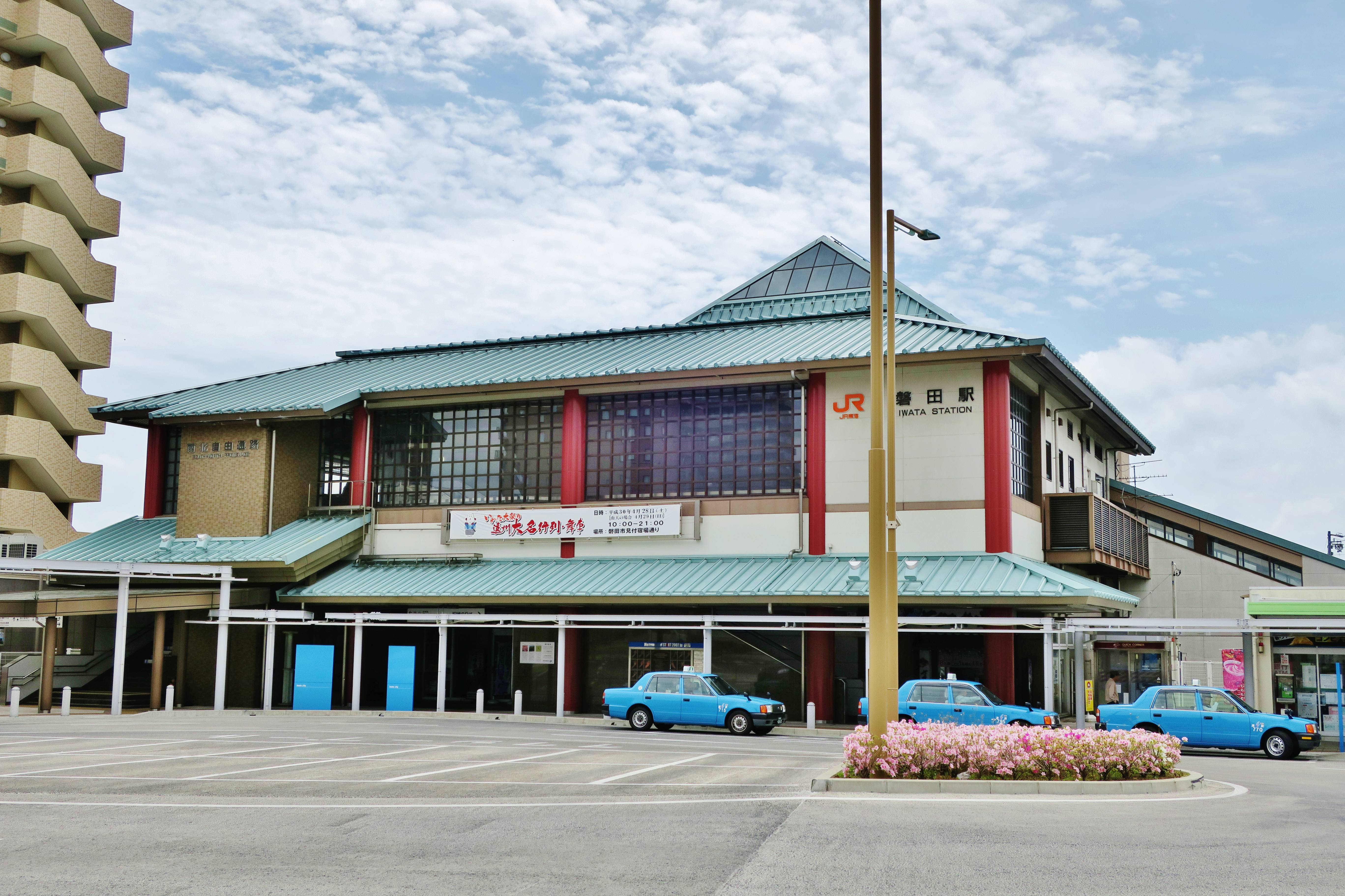 Iwata Station (Shizuoka) north.